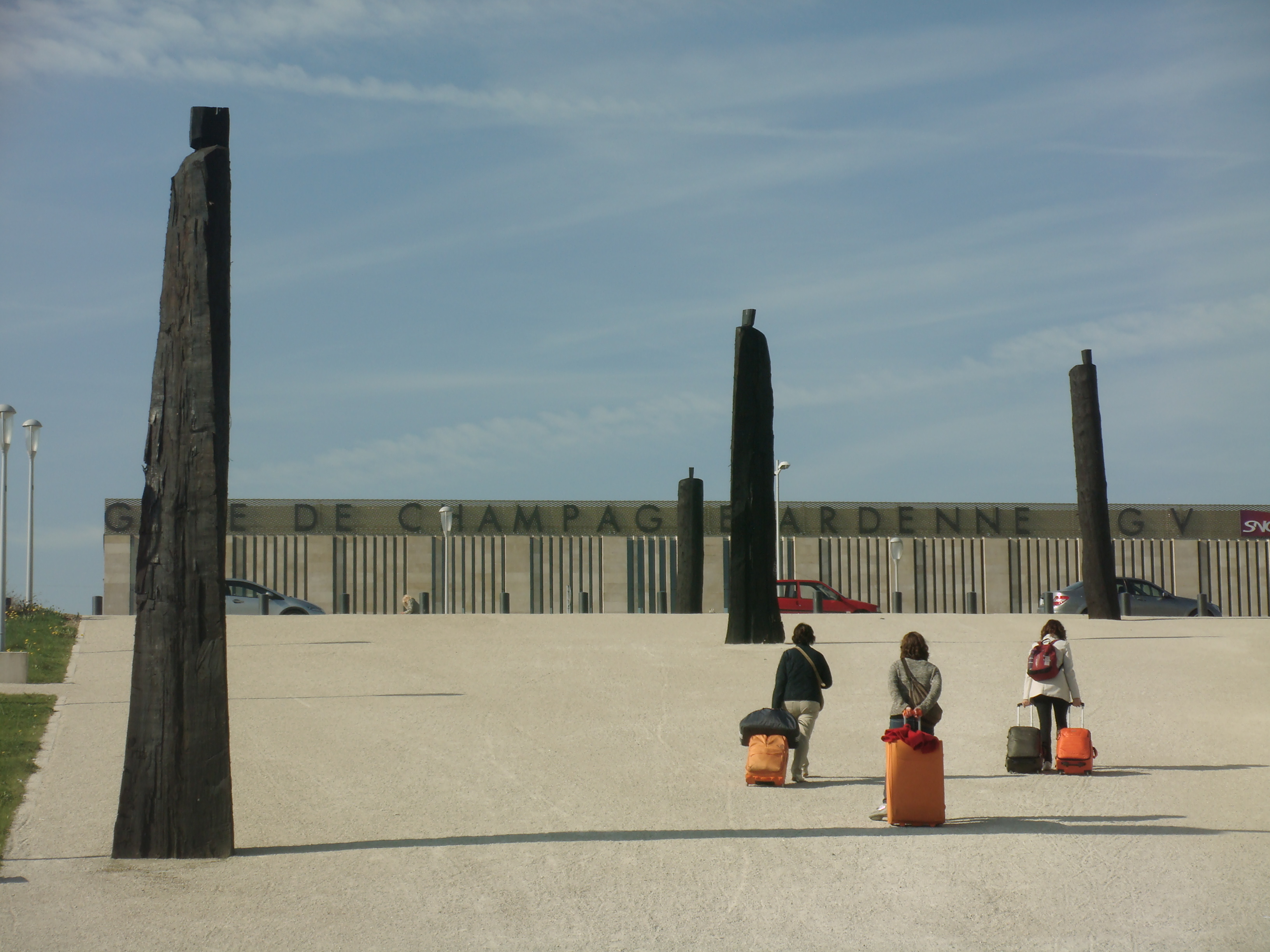 Sculptures by Christian Lapie in front of the railway station Champagne-Ardenne